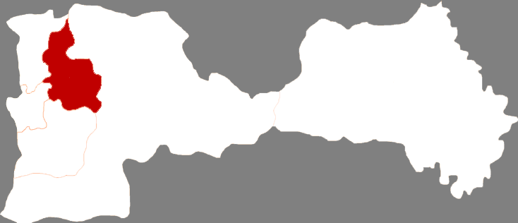 Location of Mingshan district in Benxi City, China